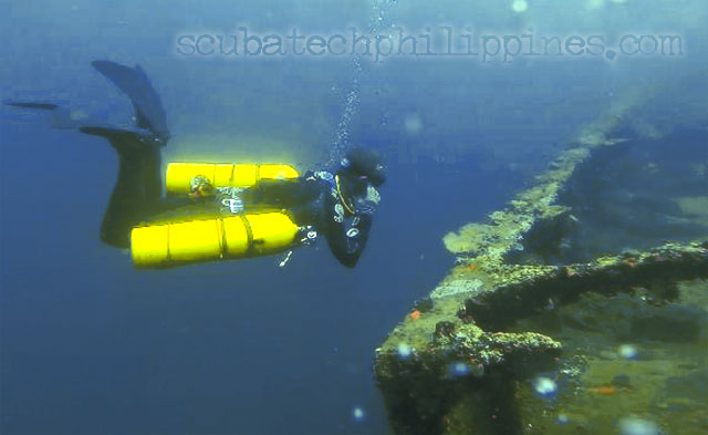 Recreational sidemount diver